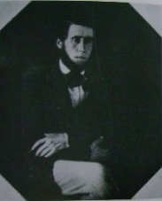 Enrique Lafuente- político argentino